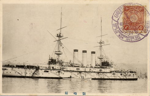 Postcard of Japanese battleship Shikishima with commemorative cancel 1906.5.27 for Naval Commemoration Day of the Russo-Japanese War 1904-1905